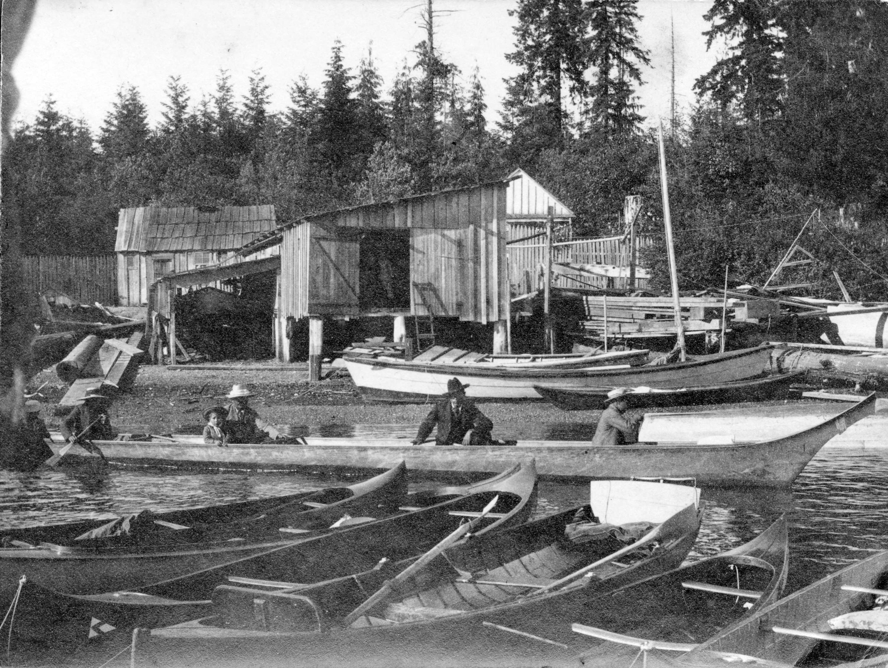 Photograph taken in 1897